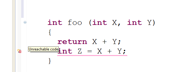 Screenshot of Eclipse 4.2 showing unreachable code error Česky: Výřez ze screenshotu Eclipse verze 4.2 znázorňující chybu nedosažitelného kódu.